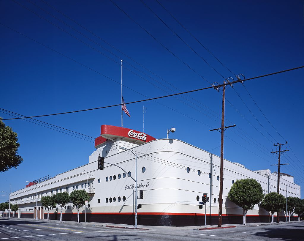 The Coca-Cola Building - located at 1334 South Central Avenue in Los Angeles, California. Streamline Moderne style architecture, built in 1939. Los Angeles Historic-Cultural Monument #138.